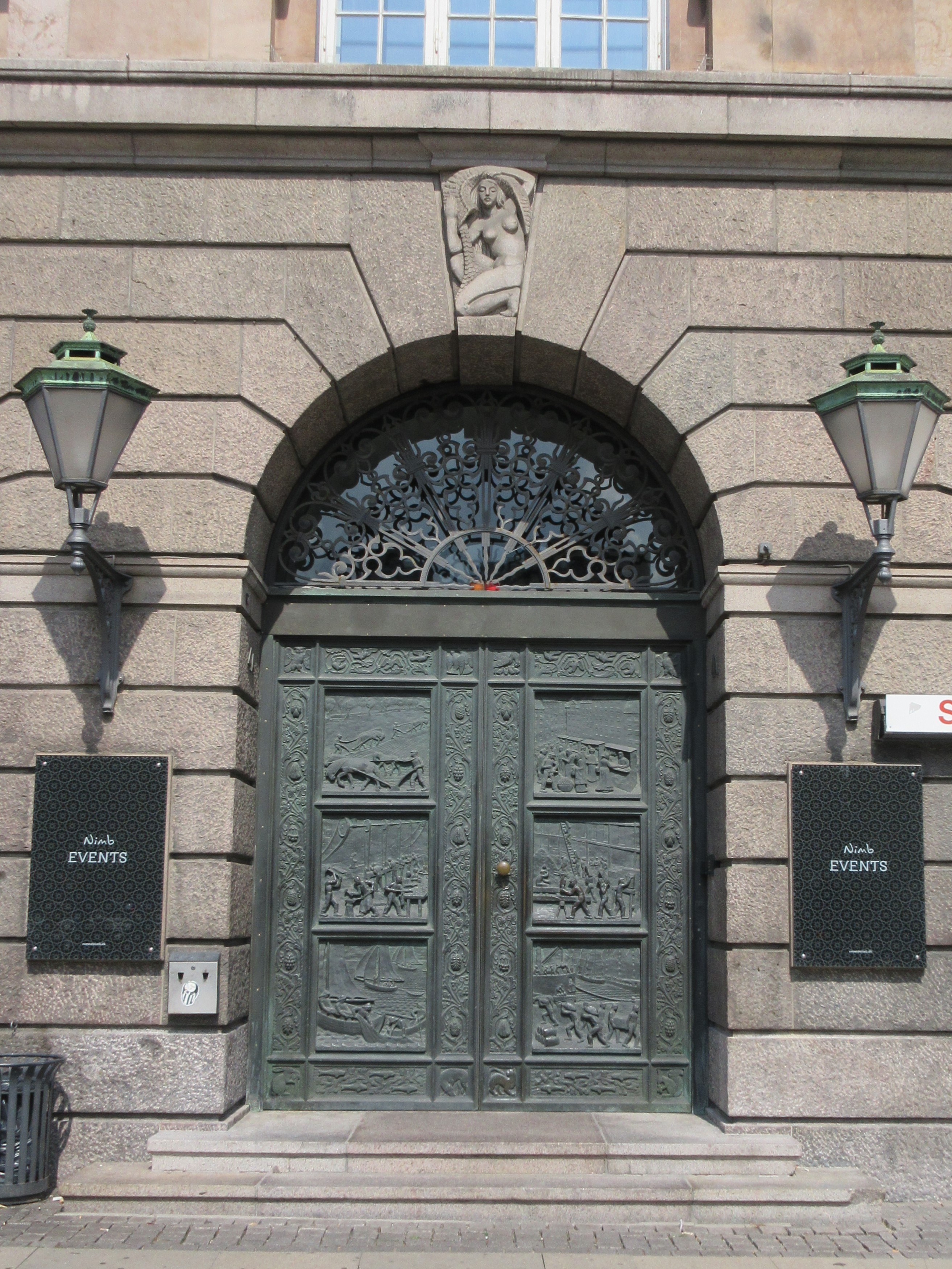 Main entrance of Axelborg in Copenhagen, Denmark